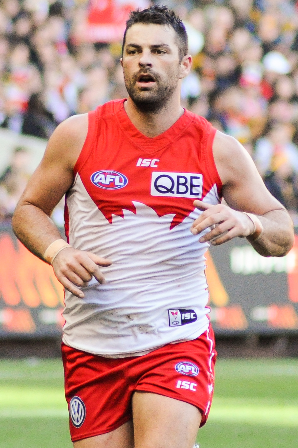 Heath Grundy during the AFL round thirteen match between Richmond and Sydney on 17 June 2017 at the Melbourne Cricket Ground in Melbourne, Victoria.